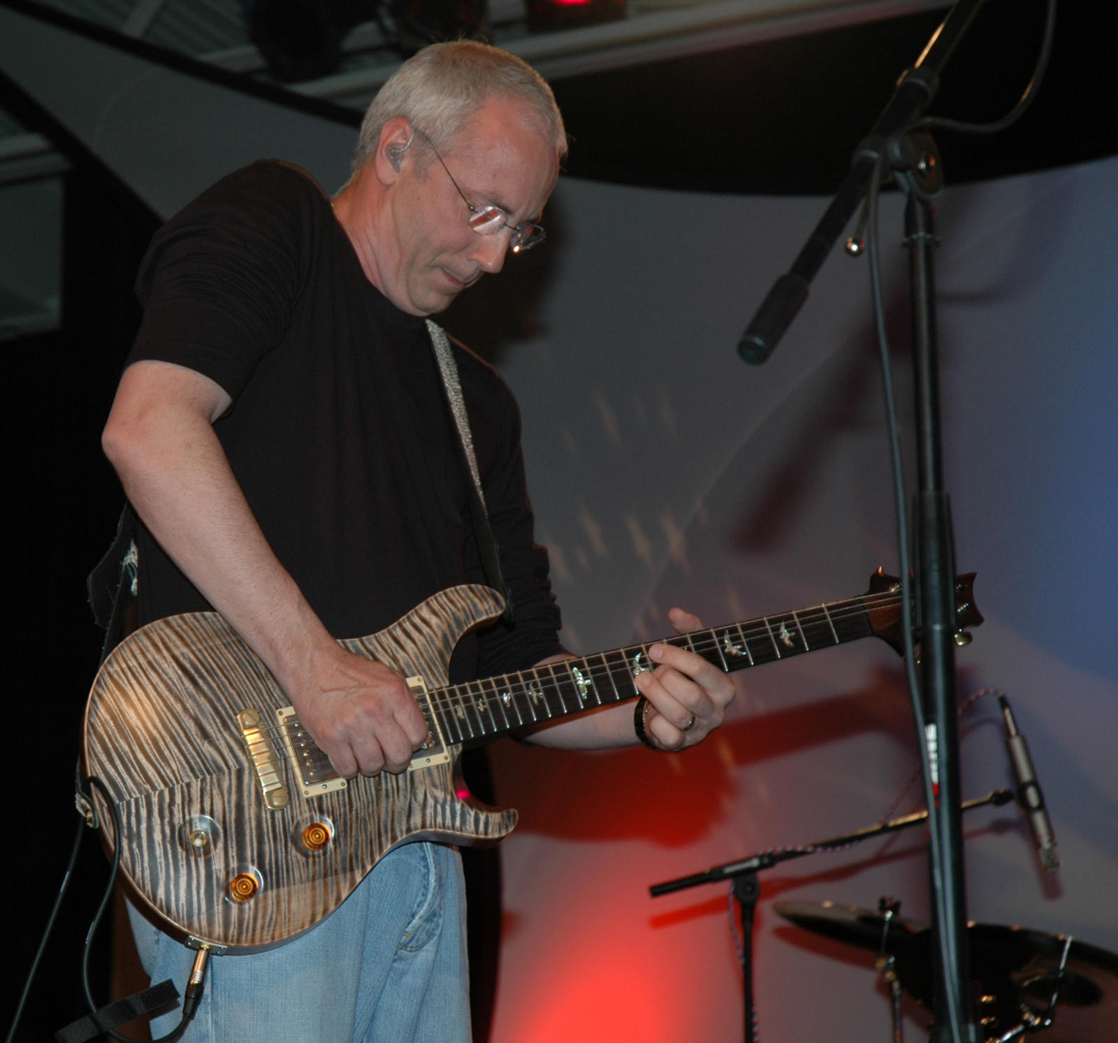 Paul Reed Smith playing one of his guitars at the annual Guitar Festival, Dallas, Texas.